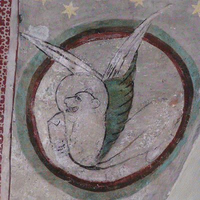 Mark the Evangelist in Överselö kyrka